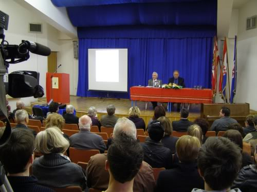 At the conference on Sept. 20. 2010. in Ivanec, Croatia to honour dr. Mirko Malez